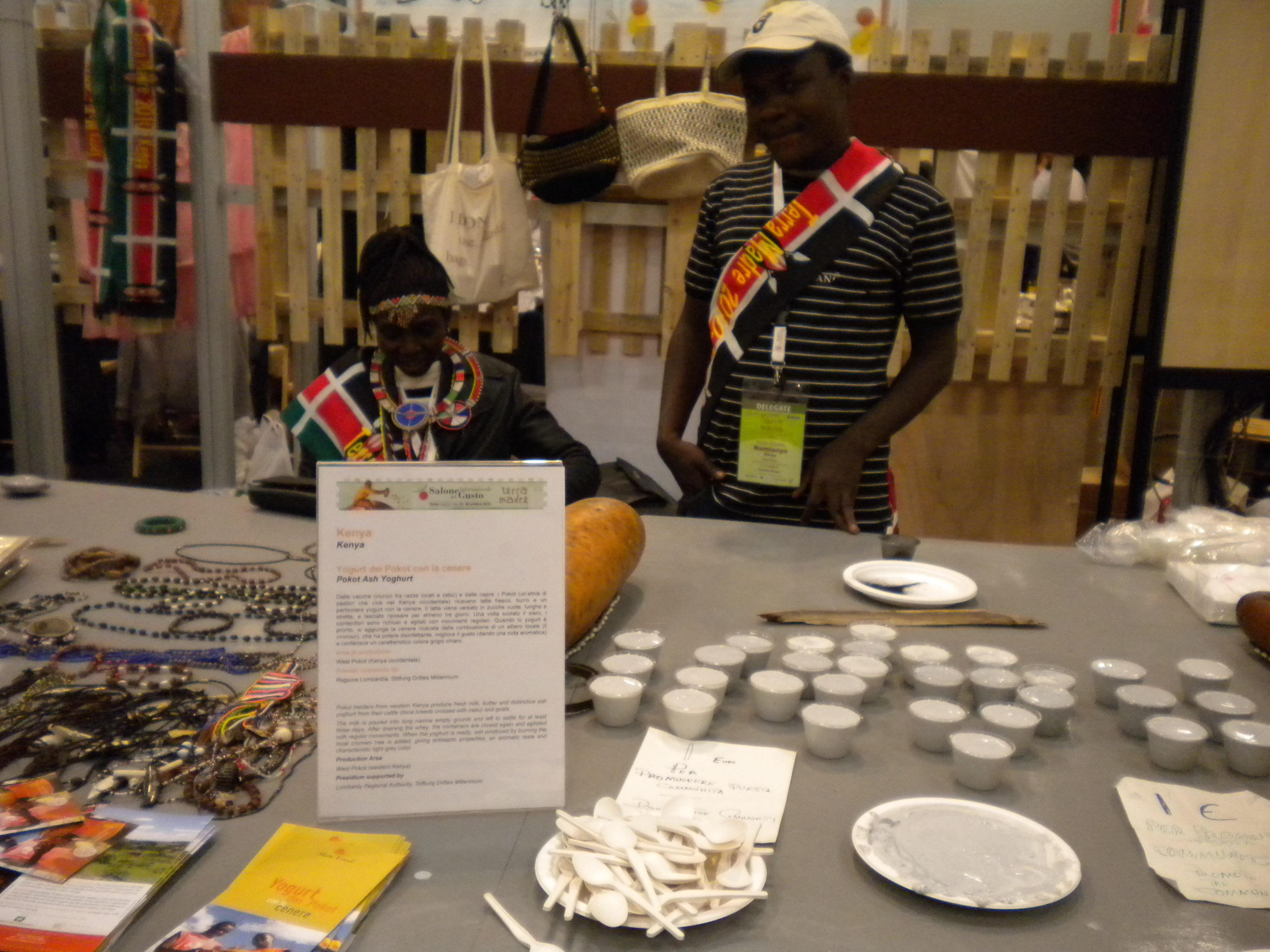 Pokot Ash Yoghurt - Traditional yogurts from the Kenyan (district of West Pokot), photographed at a market during the Salone del Gusto di Torino 2010 - Italy.